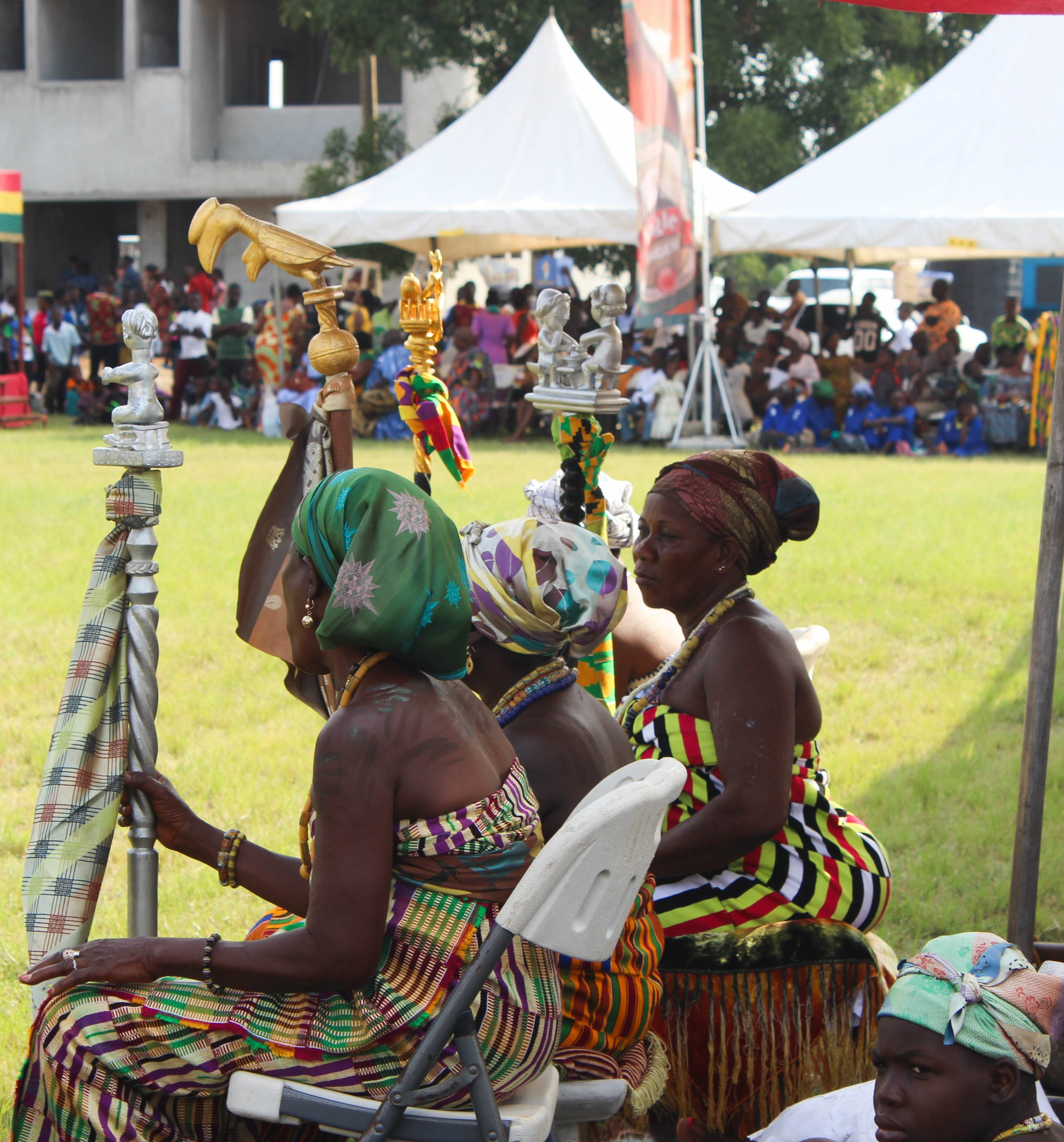 This is an image of Cultural Fashion or Adornment from Ghana